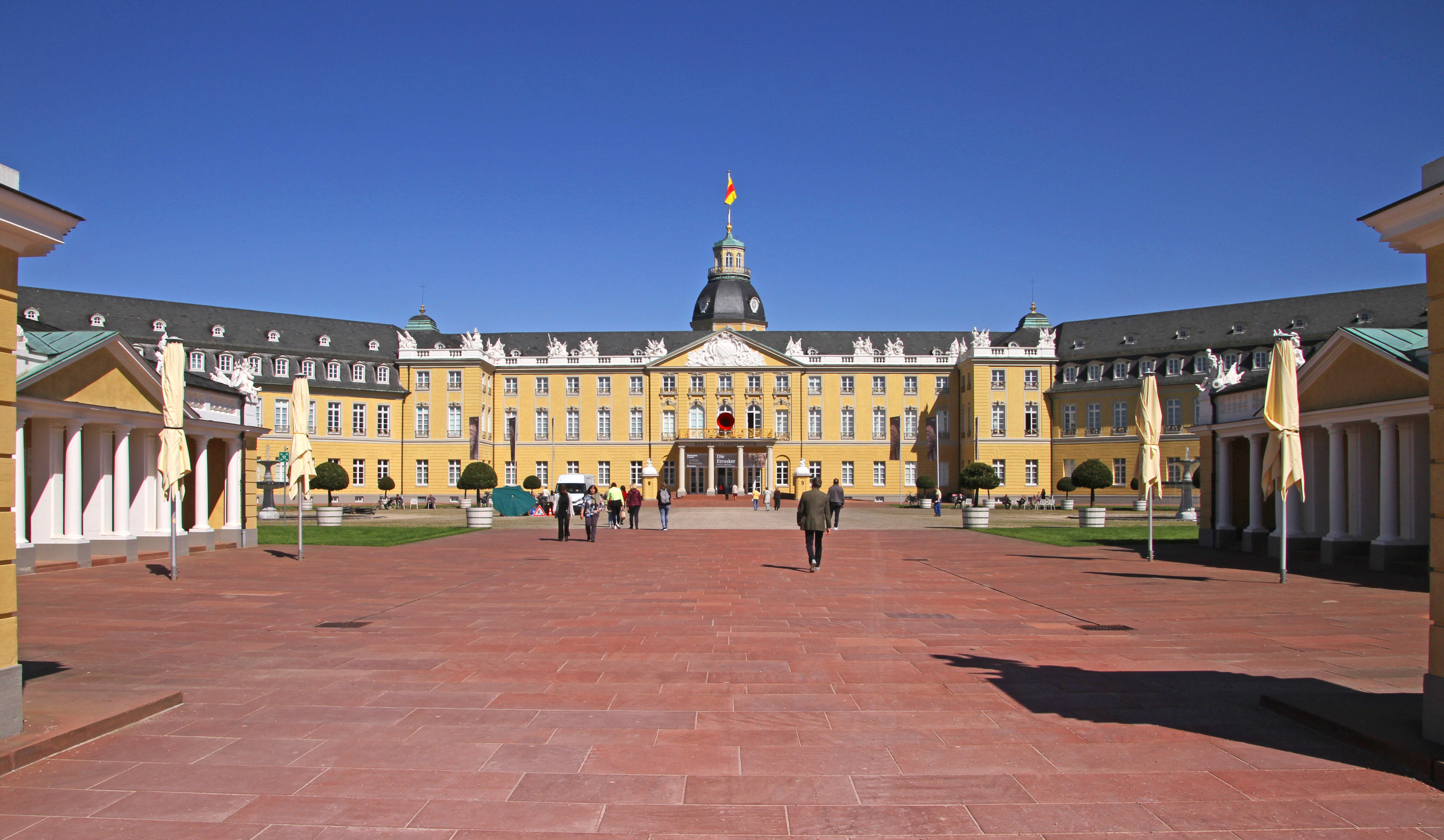 Karlsruhe Palace